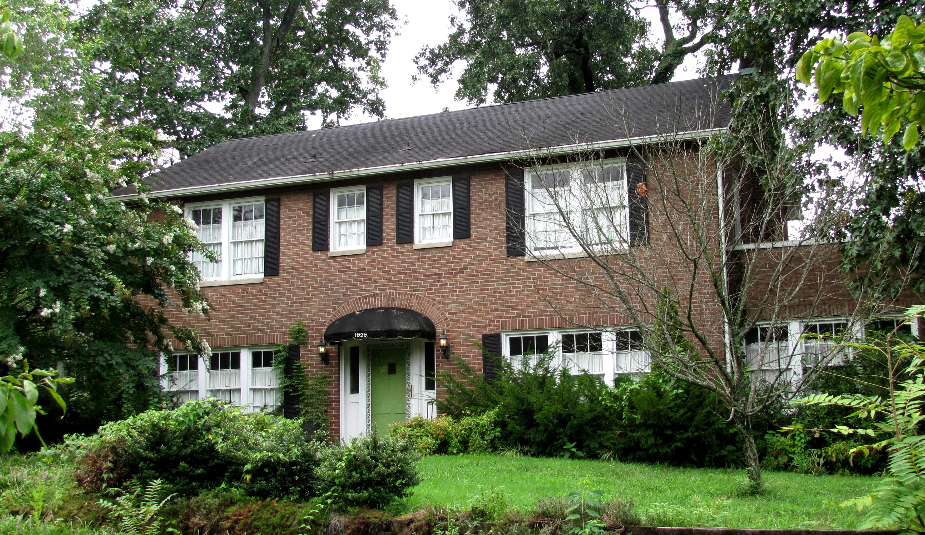 House at 1929 North Hills Boulevard in Knoxville, Tennessee, USA. Built by developer George Fieldan in 1927, this was the first house constructed in the North Hills subdivision, and is now a contributing property within the NRHP-listed North Hills Historic District.